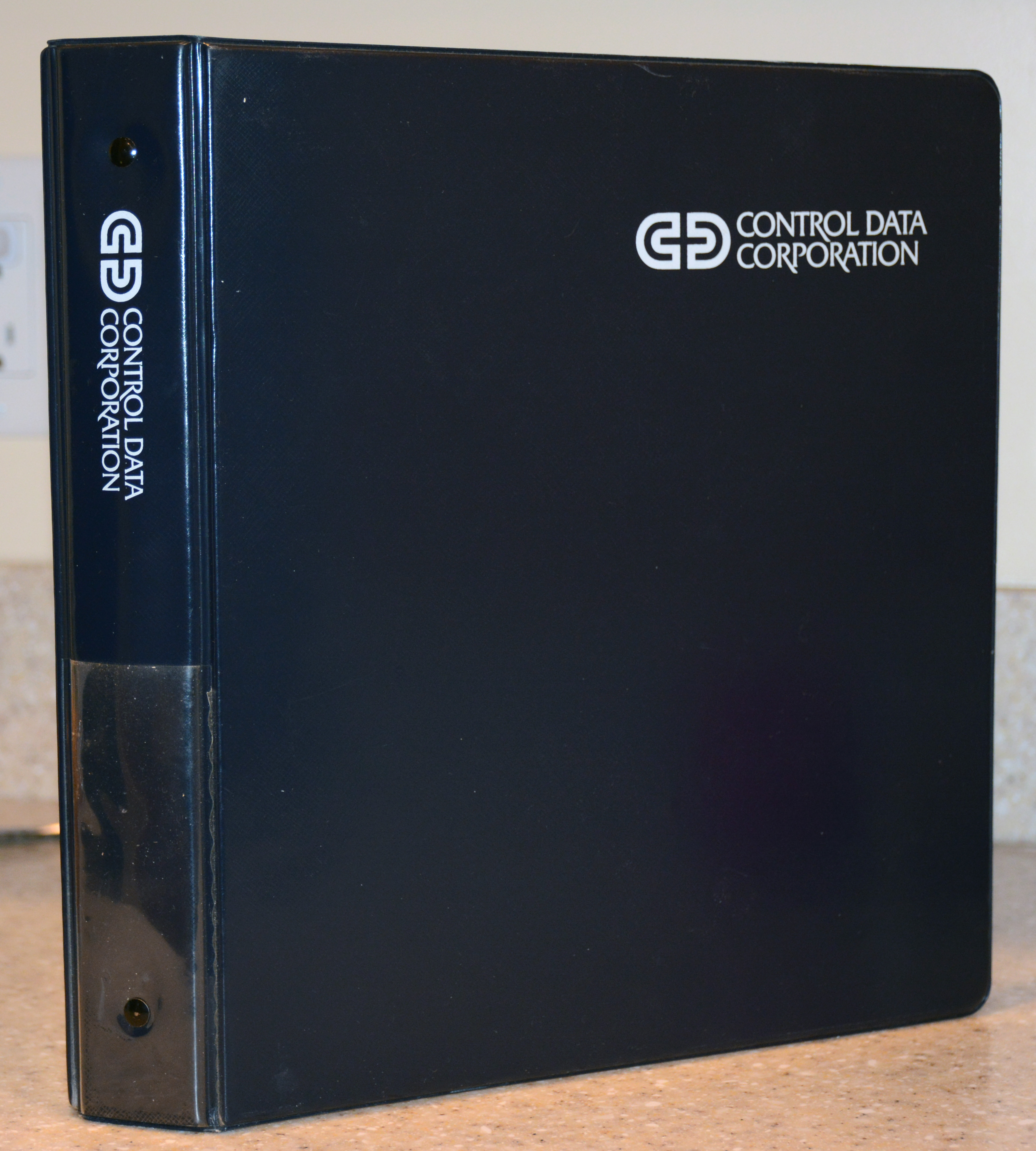 Control Data Corporation twenty-two-ring binder for documentation on their computers